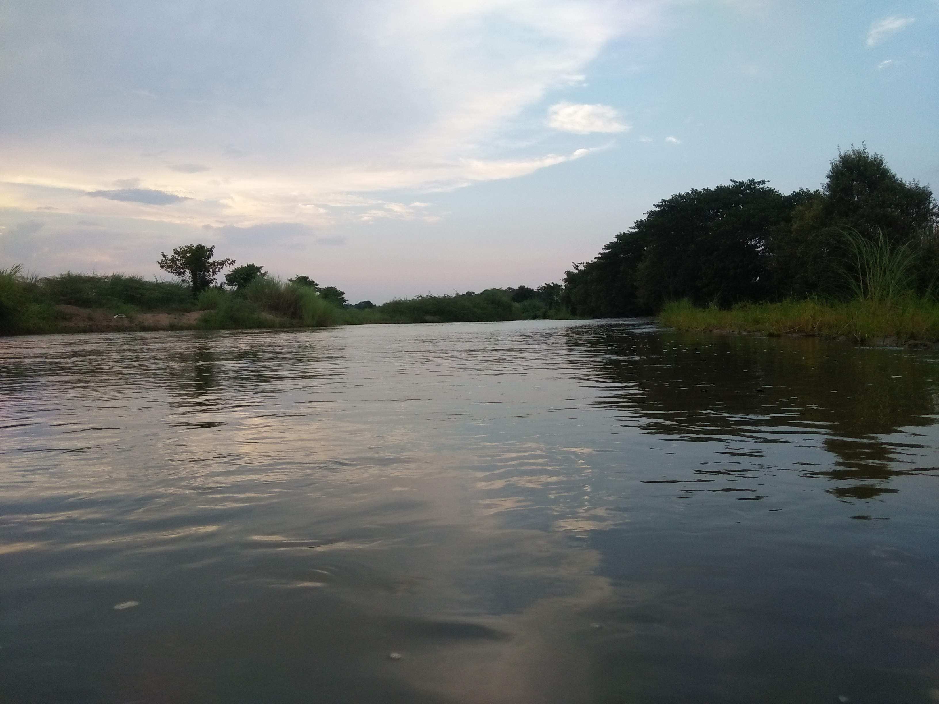 The beauti of a stream မြန်မာဘာသာ: ဘိုင်းဒါးချောင်းတစ်နေရာရဲ့ အလှပပါ